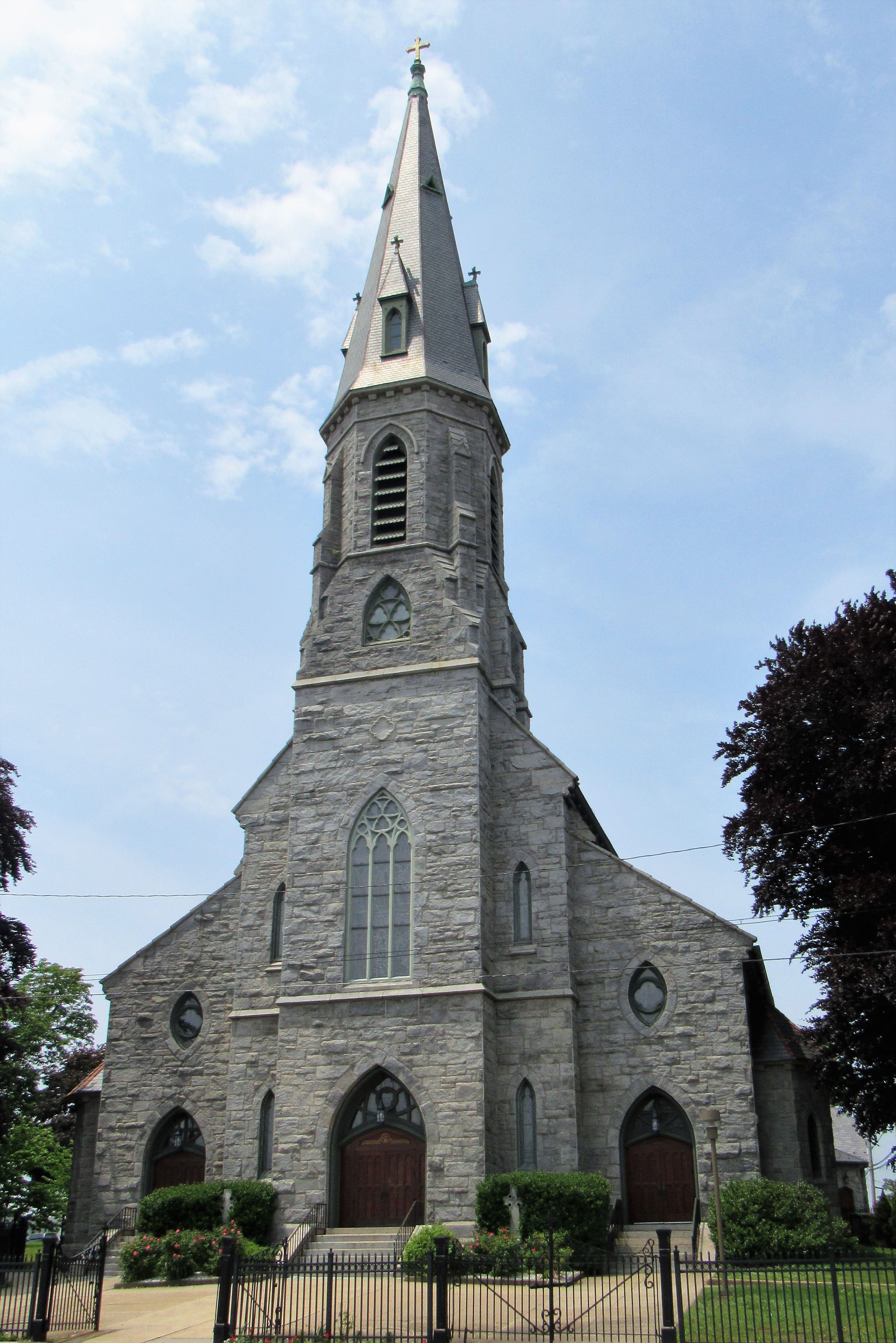 St. Augustine Cathedral in Bridgeport, Connecticut.